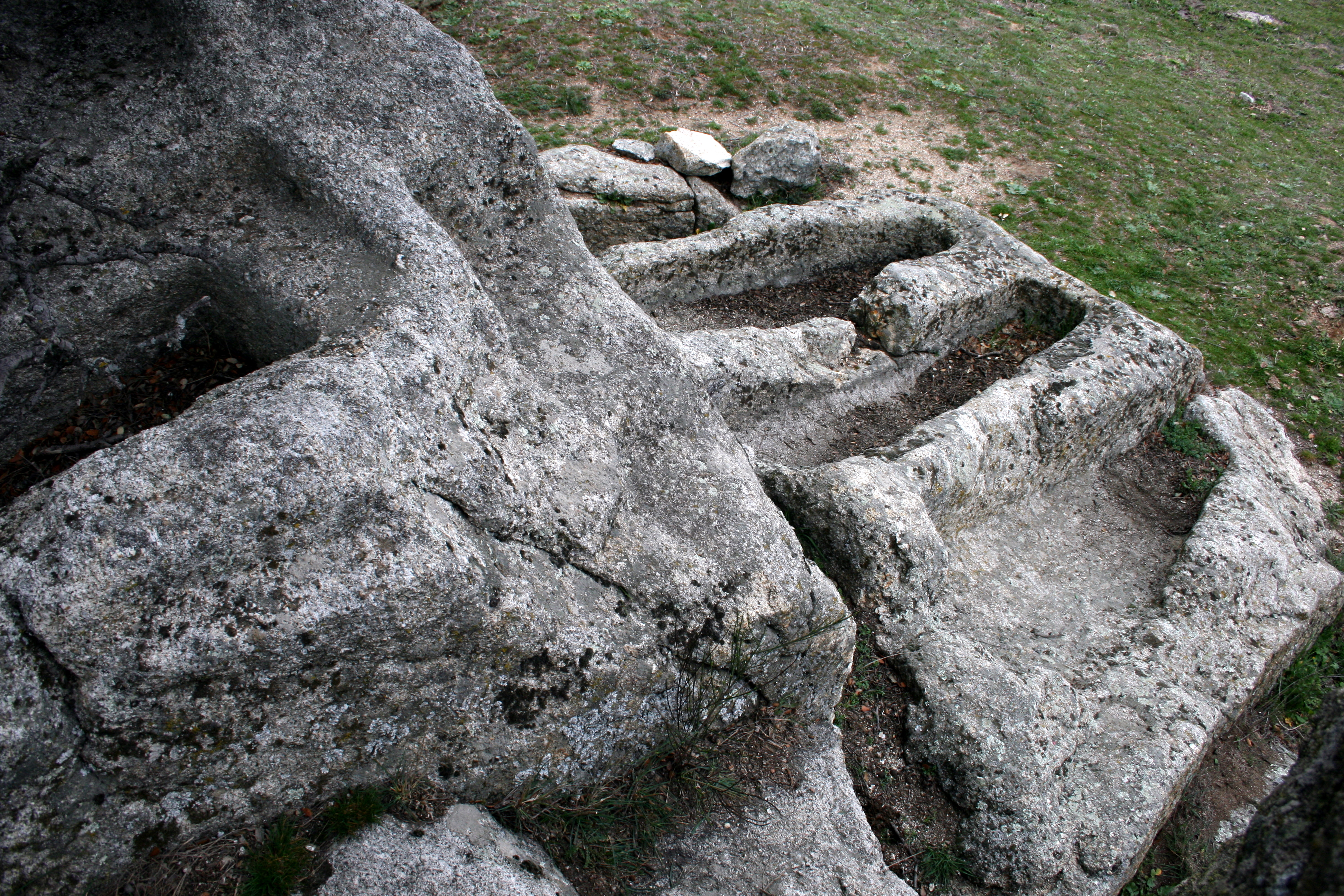 Visigothic graves, 6th or 7th century. Fuente del Moro, Colmenar Viejo, madrid. Spain